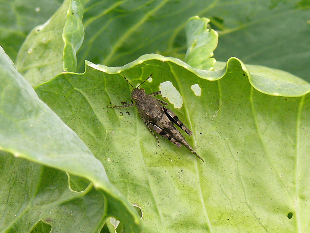 Male Trilophidia conturbata photographed near Mbissao, Senegal